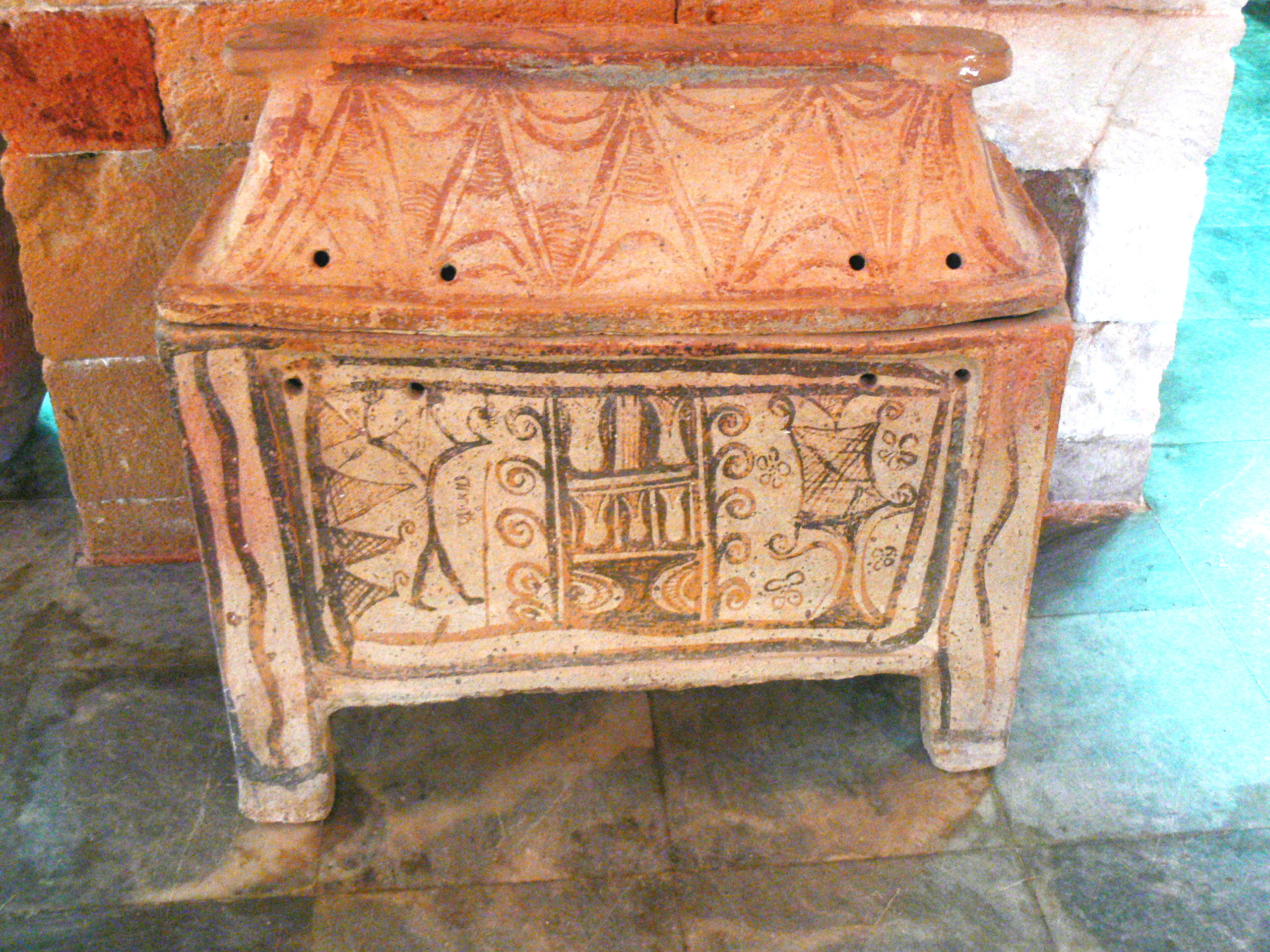 Archaeological Museum in Chania. Late minoan sarcophagus from the necropolis of Armeni, 1400-1200 B.C.